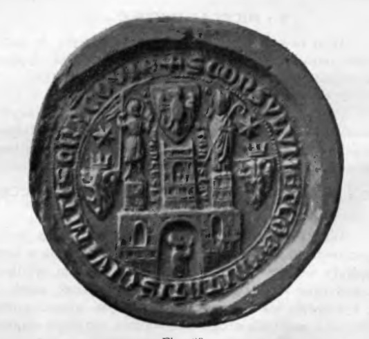 s[igillum] consvlvm et comvnitatis civitatis cracovie - Seal of the Krakow City Council from 1343